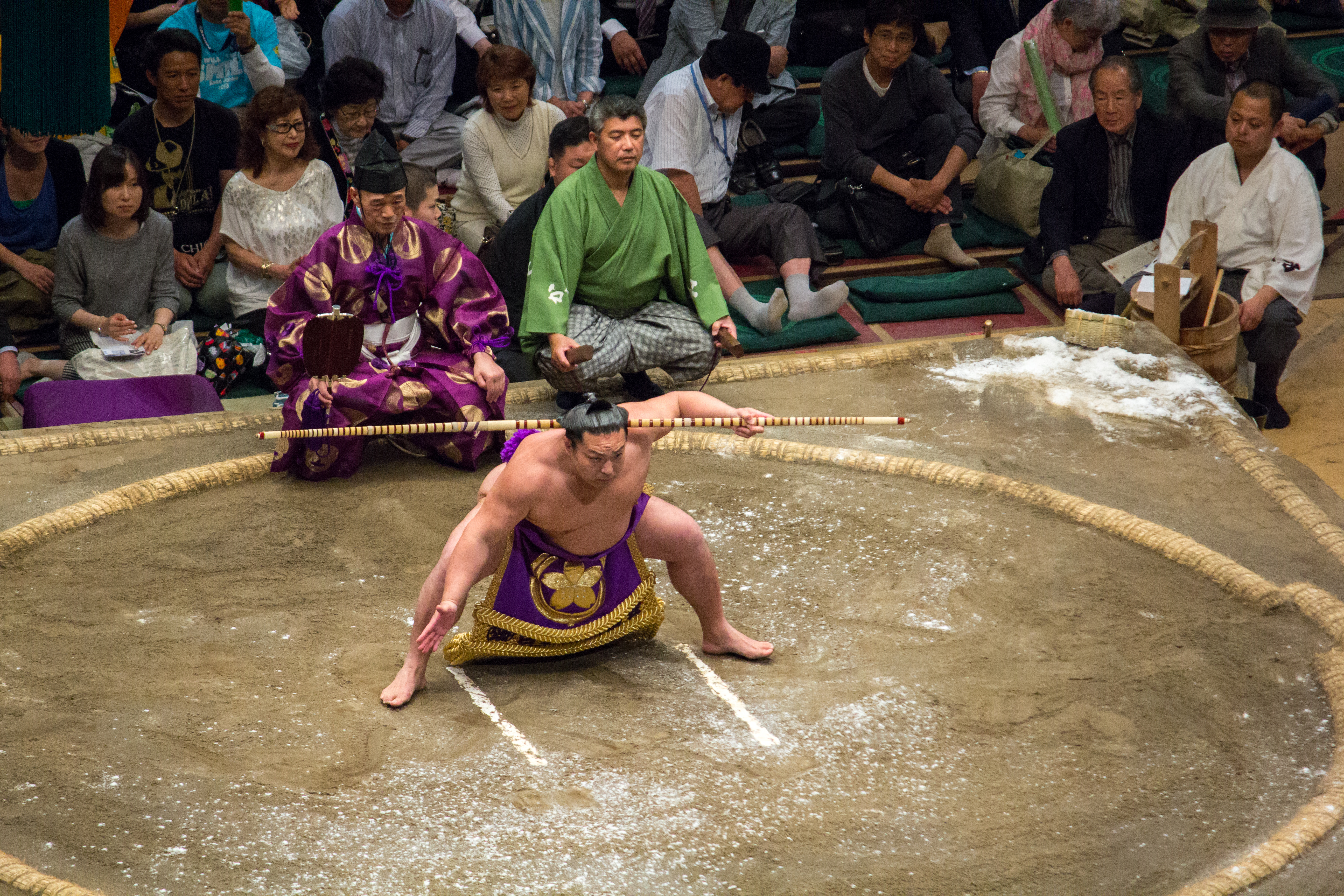 A sumo wrestler peforms the yumitori-shiki (or bow-twirling ceremony), at the 2014 May Grand Sumo Tournament in Tokyo, Japan. The yumitori-shiki is performed at the end of each tournament day by a designated wrestler, the yumitori, who is usually from the Makushita division Canon EOS 60D + EF-S 55-250mm F4-5.6 IS